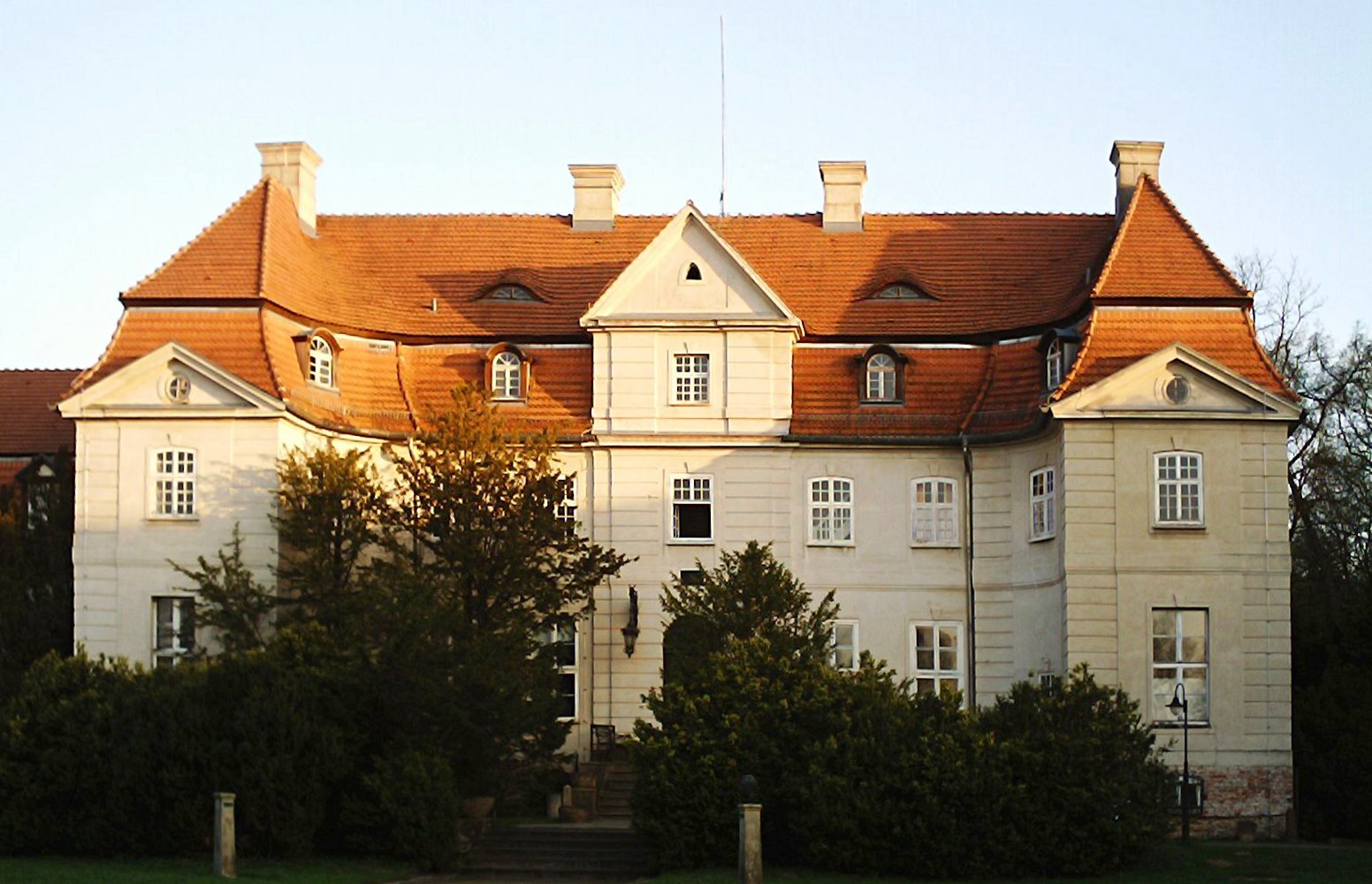 Castle of Karlsburg (main part); Germany, West-Pommerania